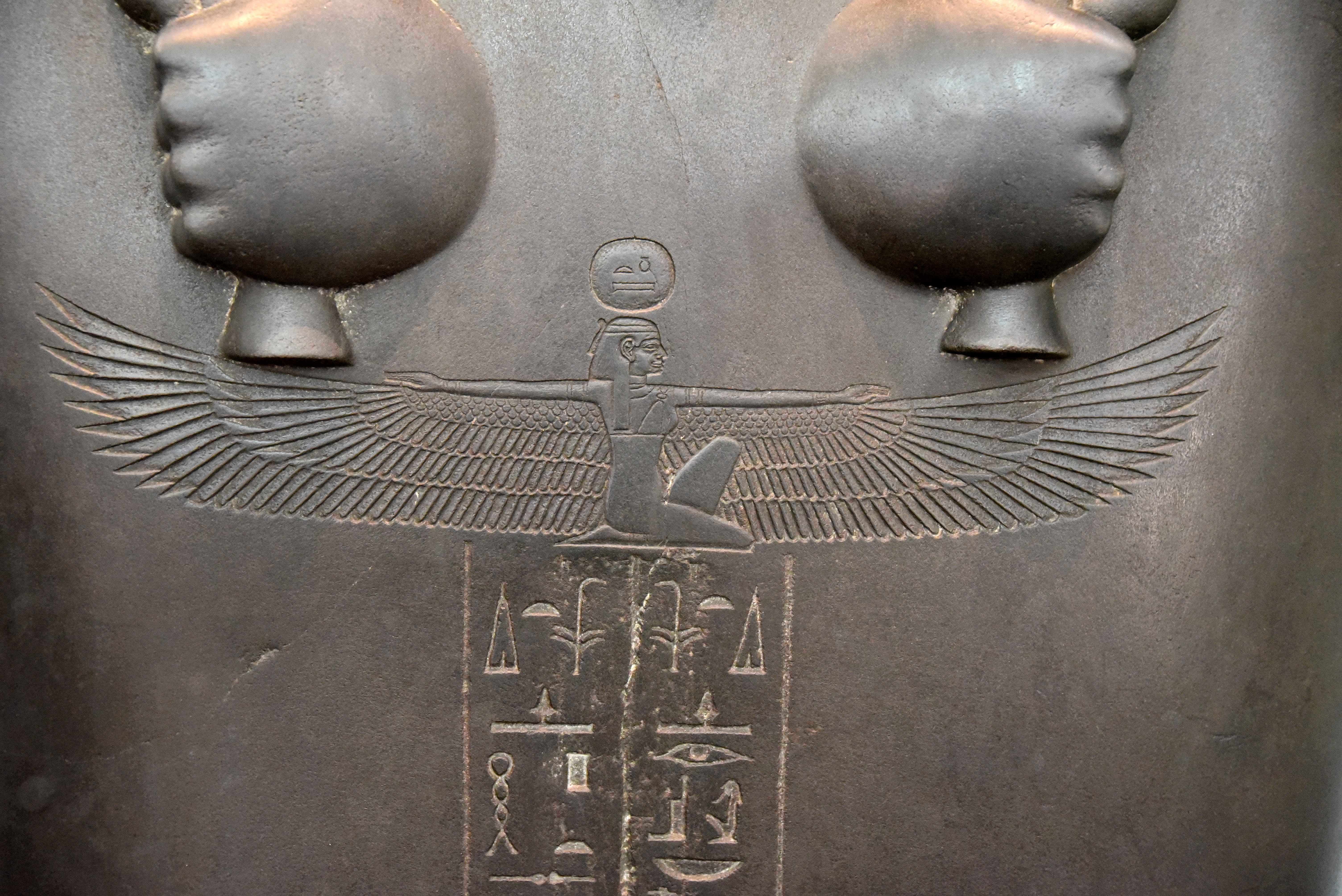 The winged sky goddess Nut; detail of the sarcophagus of Sisobek (vizier of Lower Egypt). Greywacke. 26th Dynasty, reign of Psamtek I, 664-610 BCE. Probably from Memphis, Saqqara, Egypt. It is currently housed in the British Museum, London.